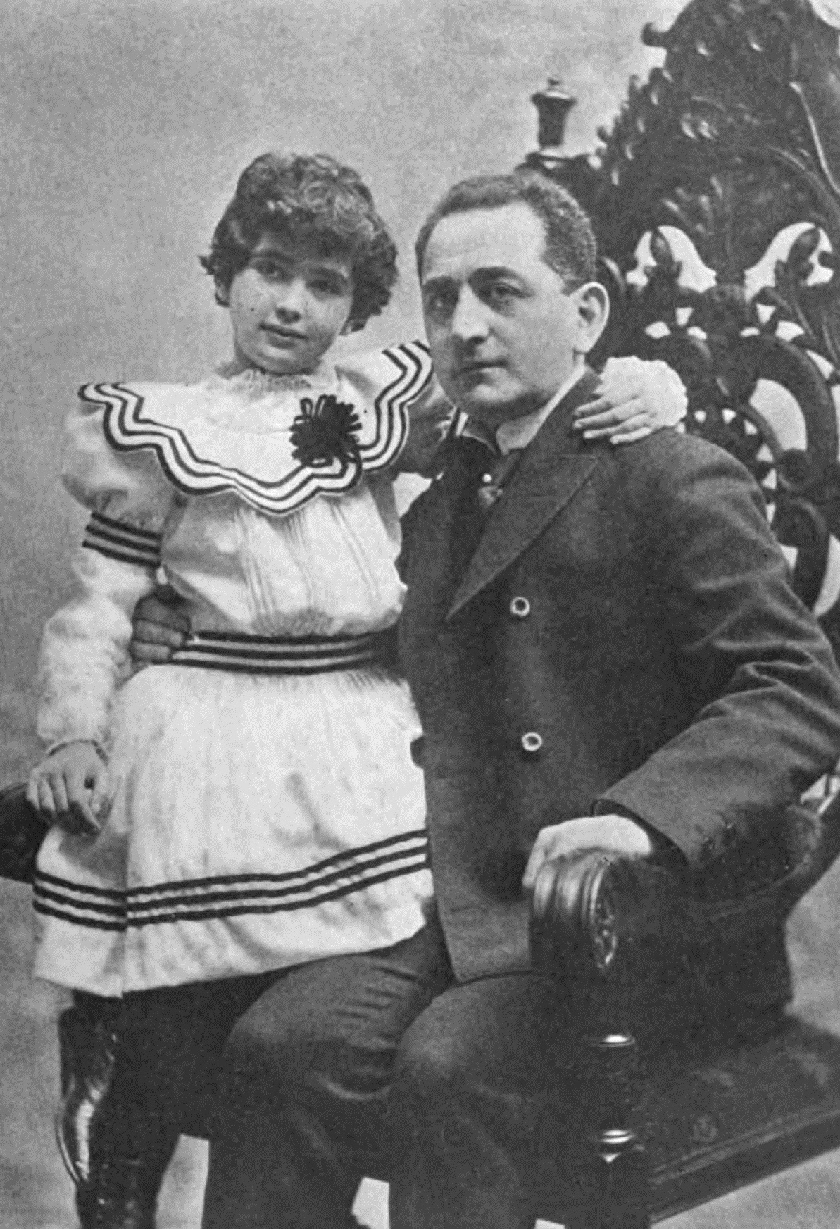 New York Times publisher Adolph Ochs (1858–1935) and his daughter, Iphigene.